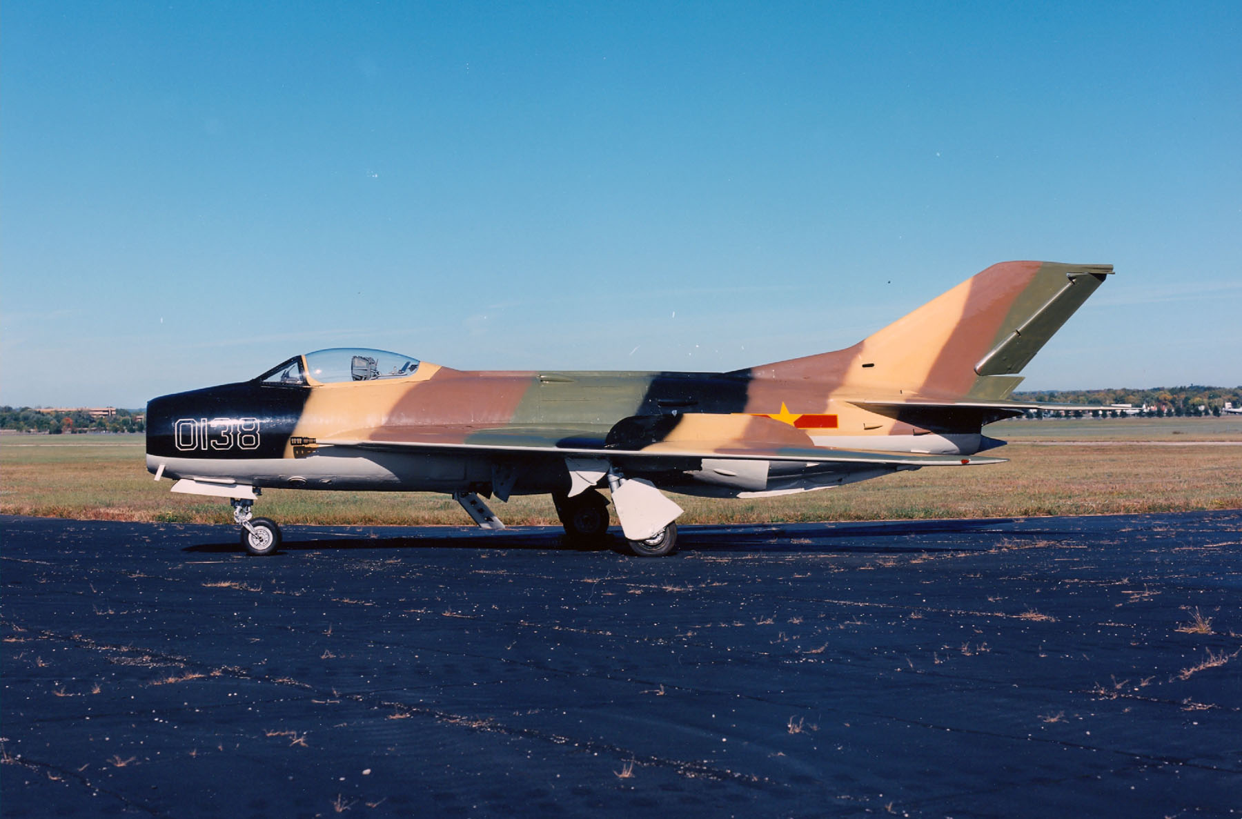 DAYTON, Ohio - Mikoyan-Gurevich MiG-19S "Farmer" at the National Museum of the United States Air Force. (U.S. Air Force photo)